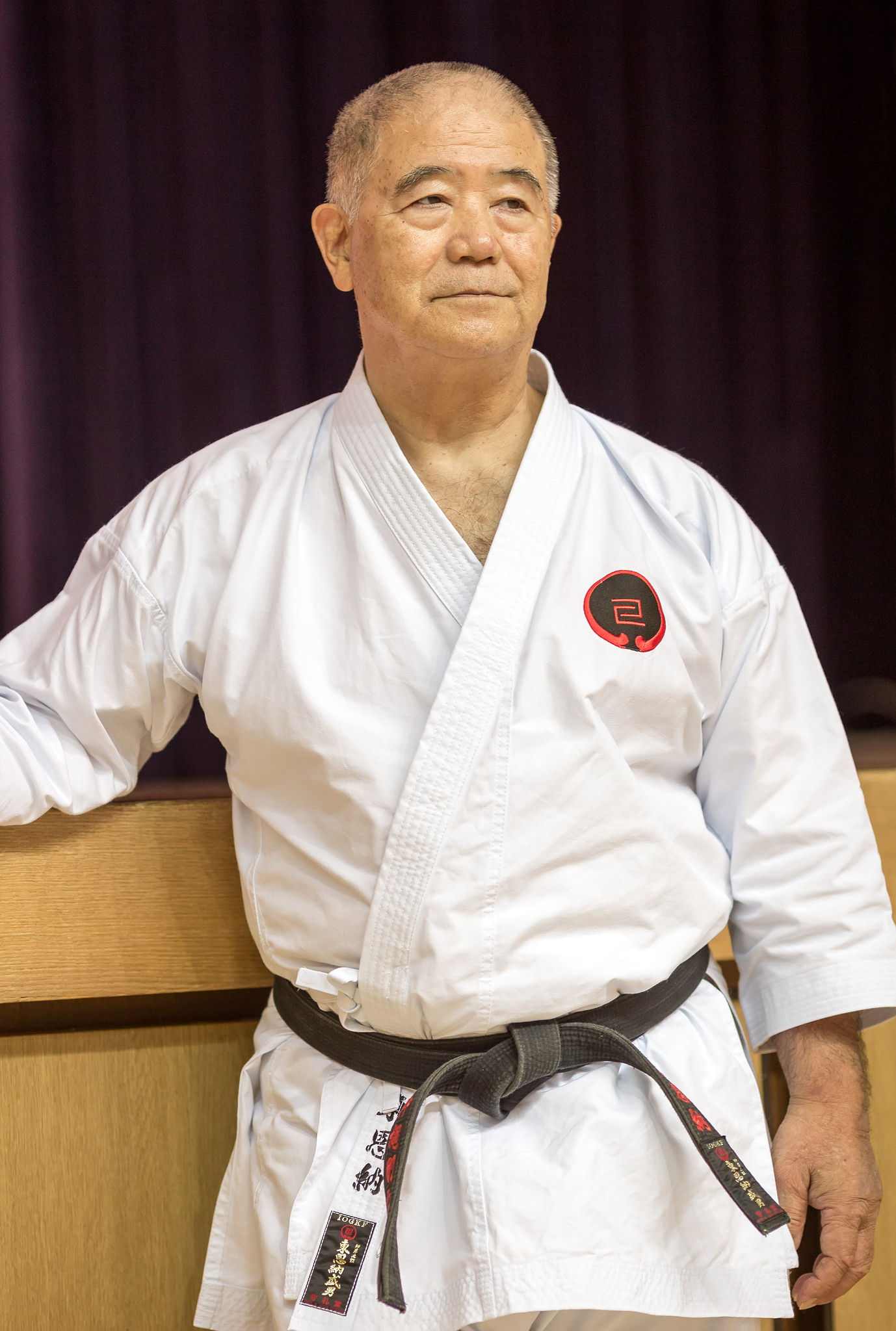 Morio Higaonna. The founder and former Chief Instructor of the International Okinawan Goju-ryu Karate-do Federation (IOGKF). Photo from 2016 IOGKF World Budosai (Naha, Okinawa, Japan)